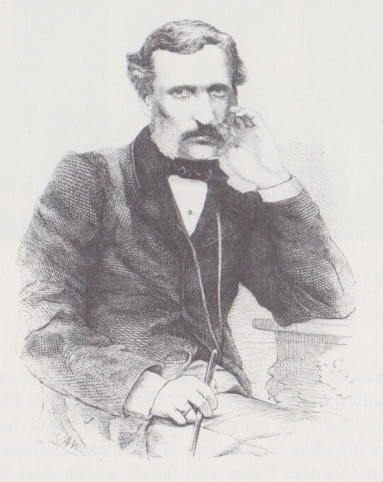 Hermann von Gilm zu Rosenegg (1812-1864), Austrian jurist and poet